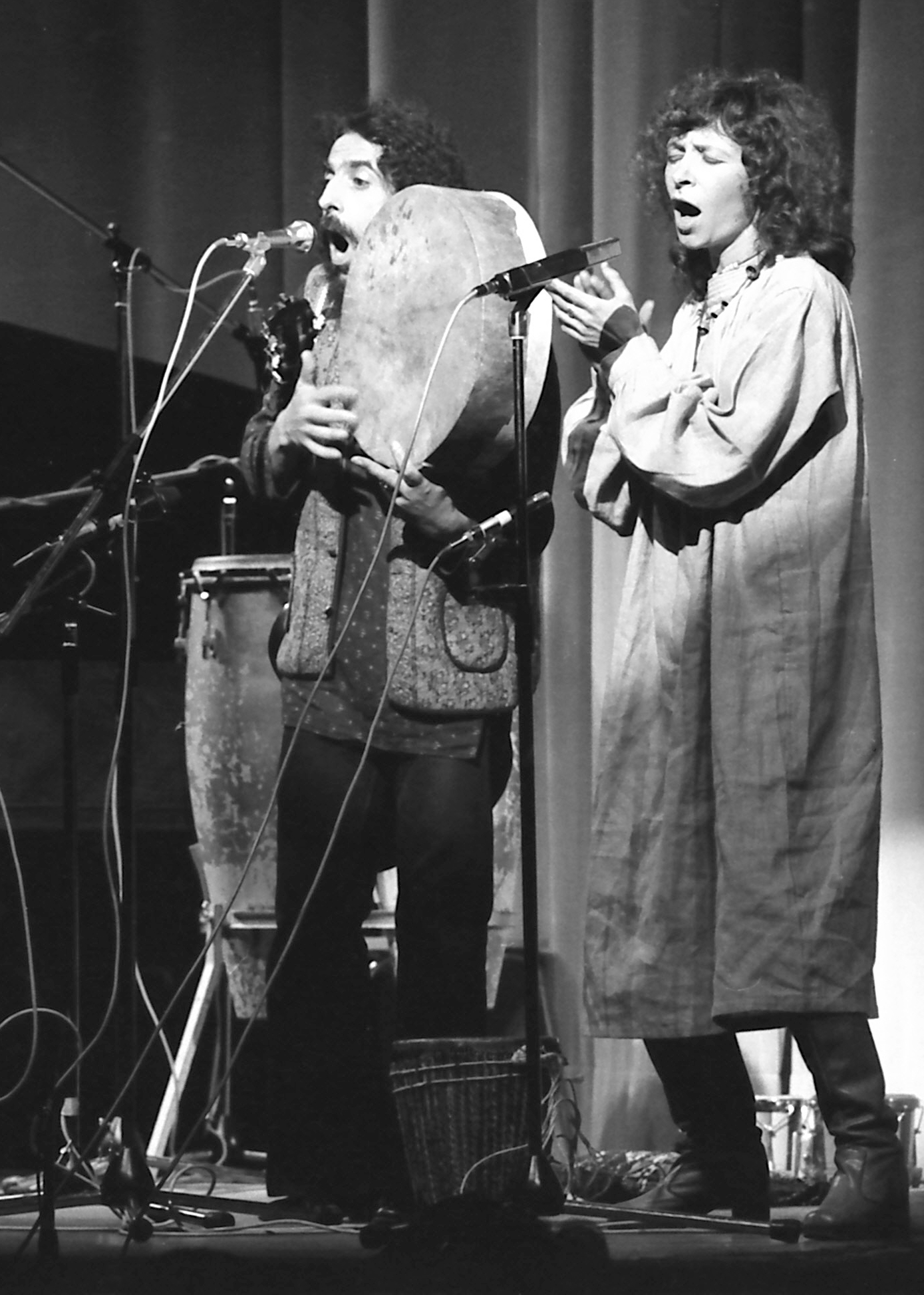 Areski Belkacem and Brigitte Fontaine performing live at the Palais des Congrès in 1974